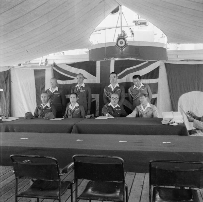 IWM caption : Japanese military representatives on board HMS CUMBERLAND for a conference to discuss terms by with Allied forces would take control of Java, Indonesia. The officers are front row l to r : Colonel Obana Major General Nishimura Major General Yamamato Rear Admiral Meada standing l to r : Lieutenant Colonel Momova Lieutenant Colonel Miyamoto Captain Nagasuki Major Yamagucki.